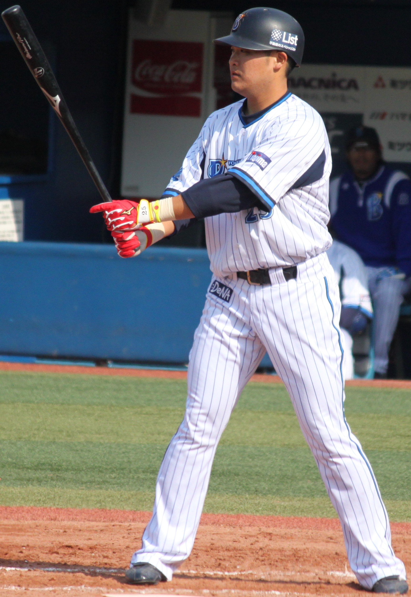 Yoshitomo Tsutsugoh, infielder of the Yokohama DeNA BayStars, at Yokohama Stadium.